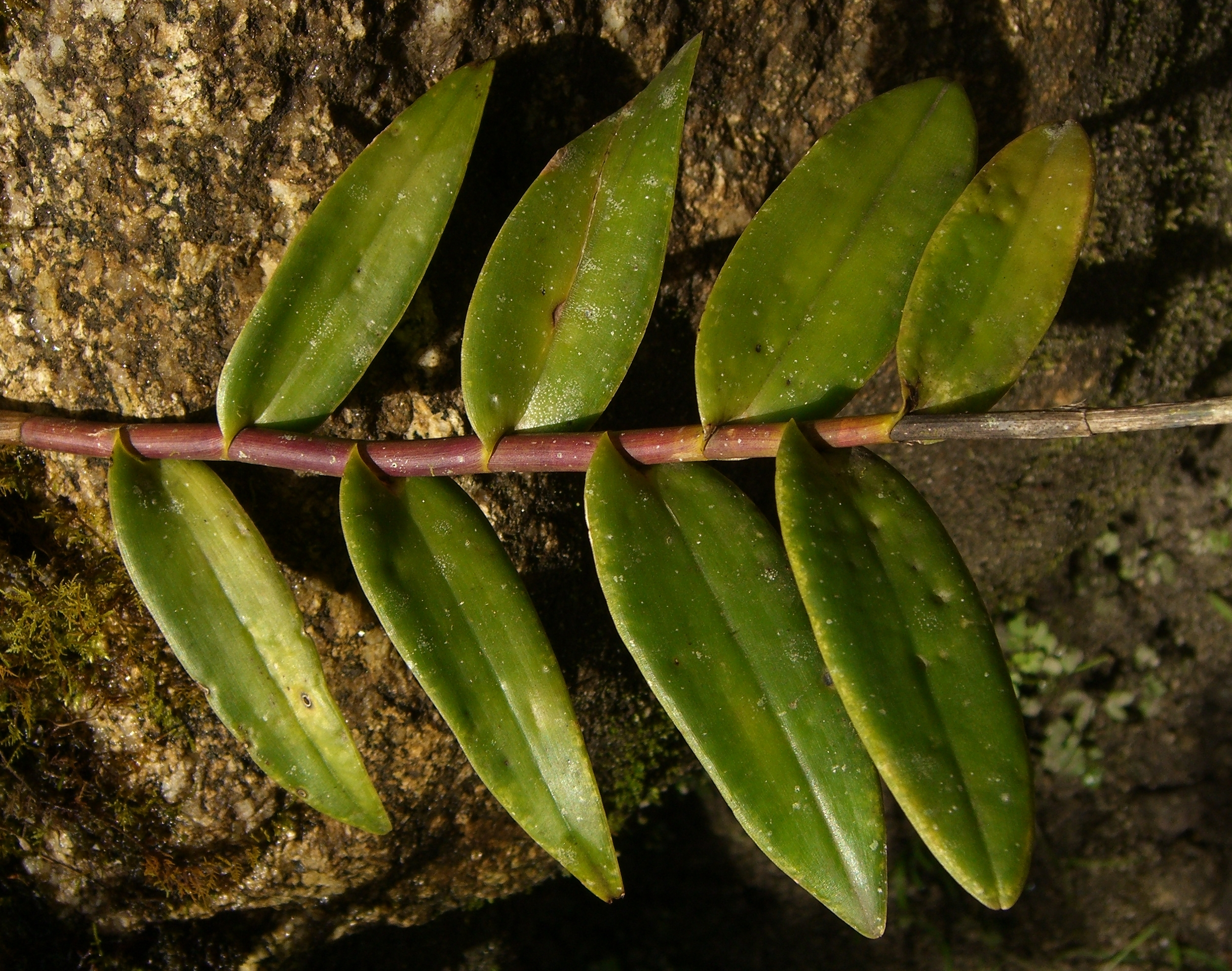 Please report references to .